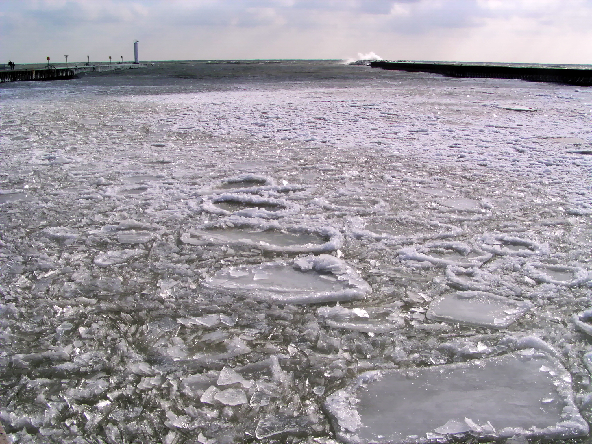 Ice_in_harbour